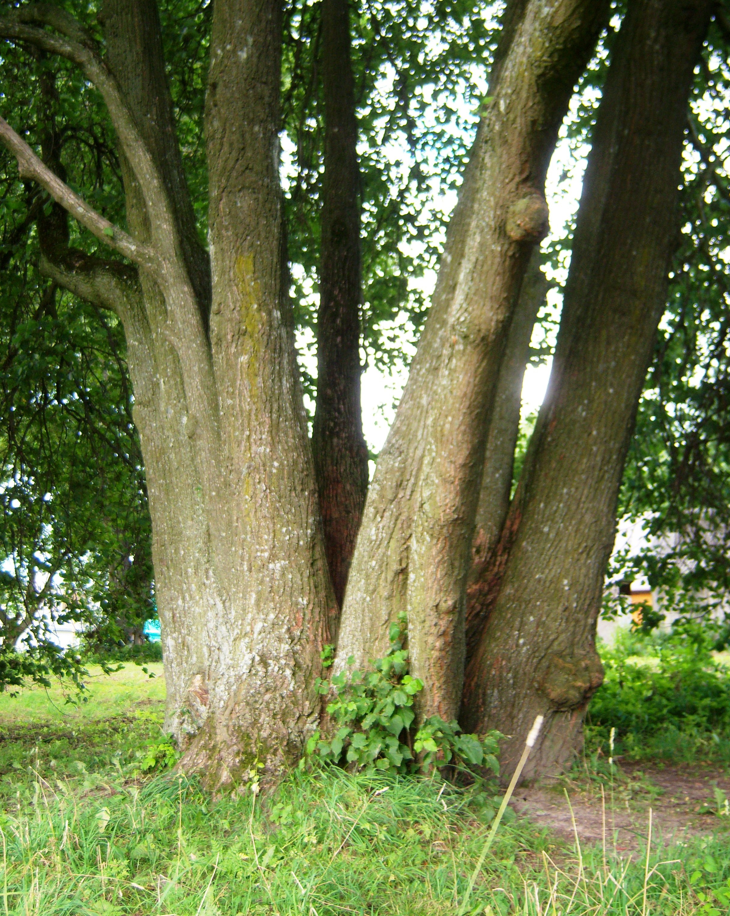 Small-leaved lime (tilia cordata) of 10 trunks, in Antakalnis, Kaišiadorys district, Lithuania